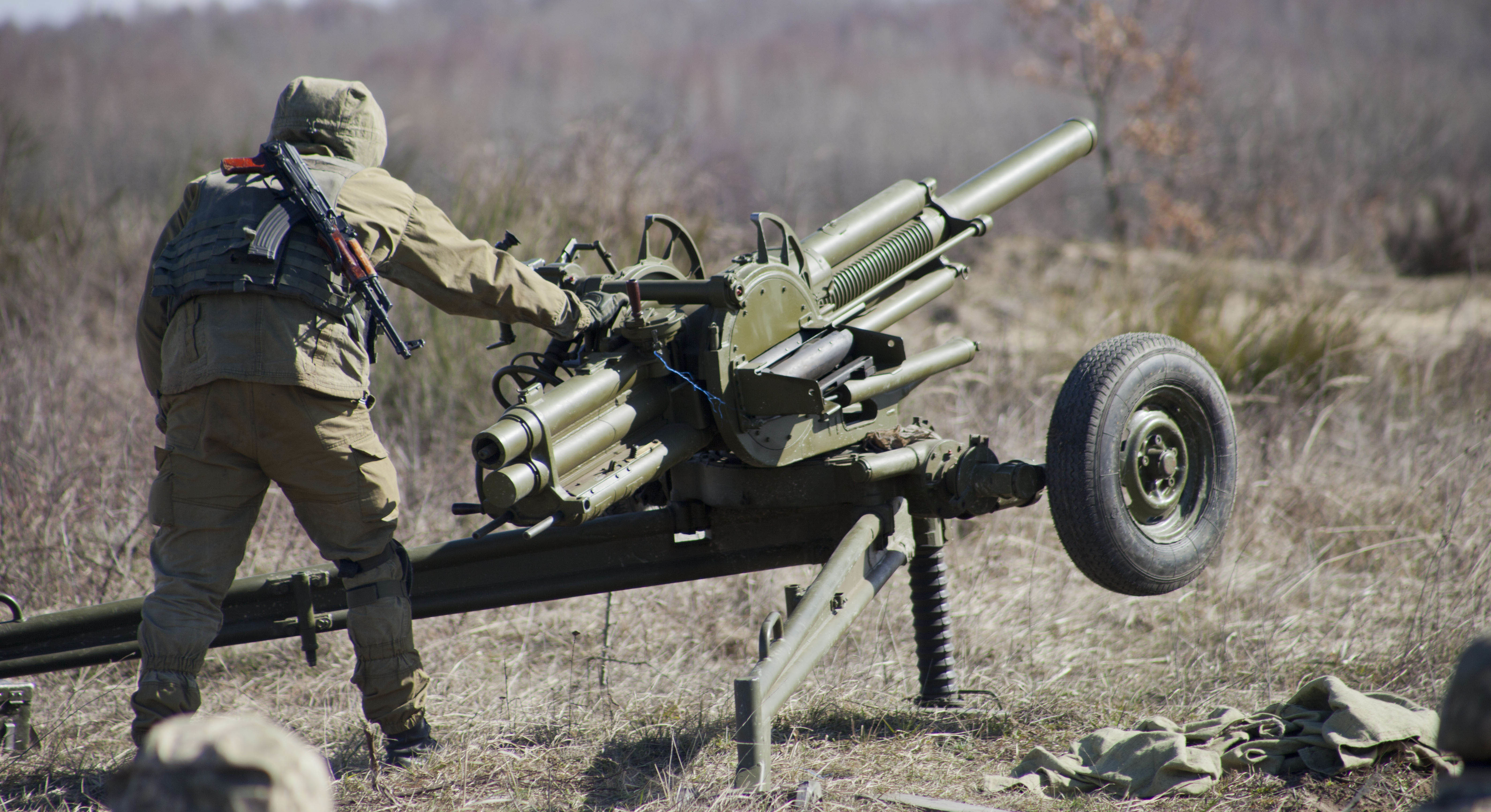 A soldier with the Ukrainian army stands behind an 82mm mortar March 19, 2016 in order to control the emplacement, laying and firing of the mortar during a mortar live-fire exercise at the International Peacekeeping and Security Center near Yavoriv, Ukraine as part as Joint Multinational Training Group-Ukraine. Each JMTG-U rotation will consist of nine weeks of training where Ukrainian soldiers will learn defensive combat skills needed to increase Ukraine's capacity for self-defense. (U.S. Army photo by Capt. Russell M. Gordon, 10th Press Camp Headquarters).